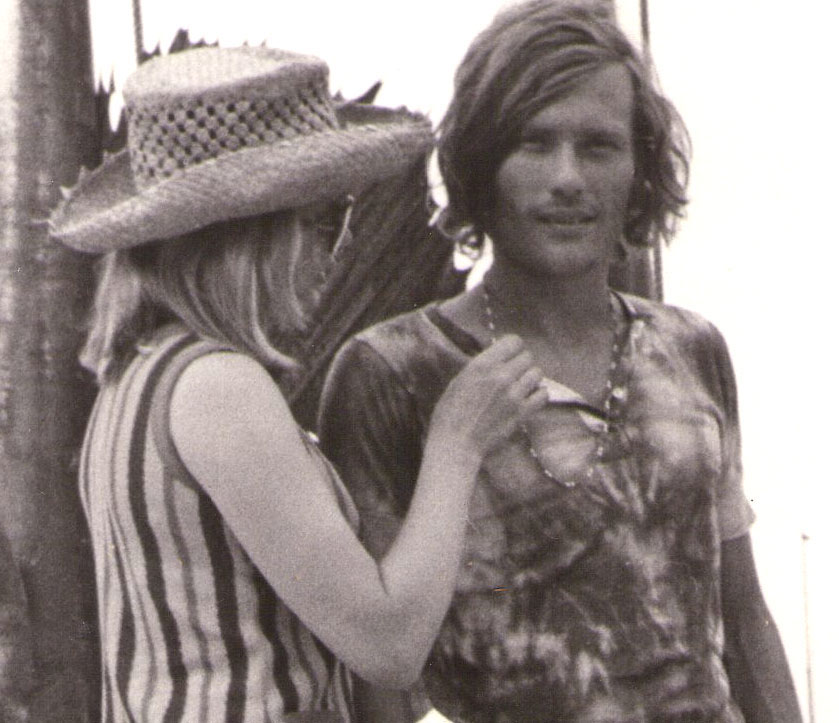 Jean-Paul Janssen and Edda Sörensen in Senegal 1970